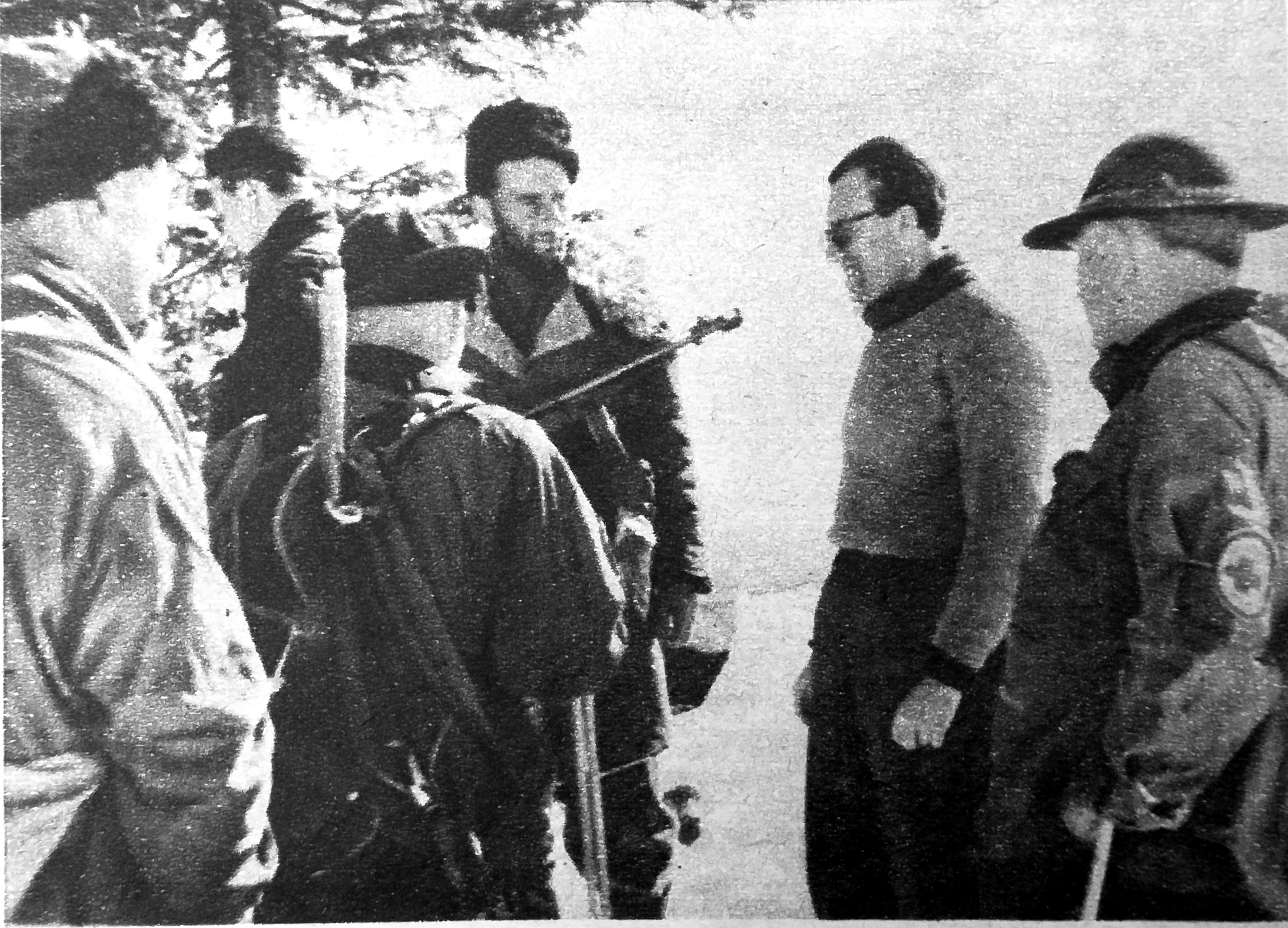 Picture from the set of "The Blue Cross" (1955) directed by Andrzej Munk (wearing glasses).